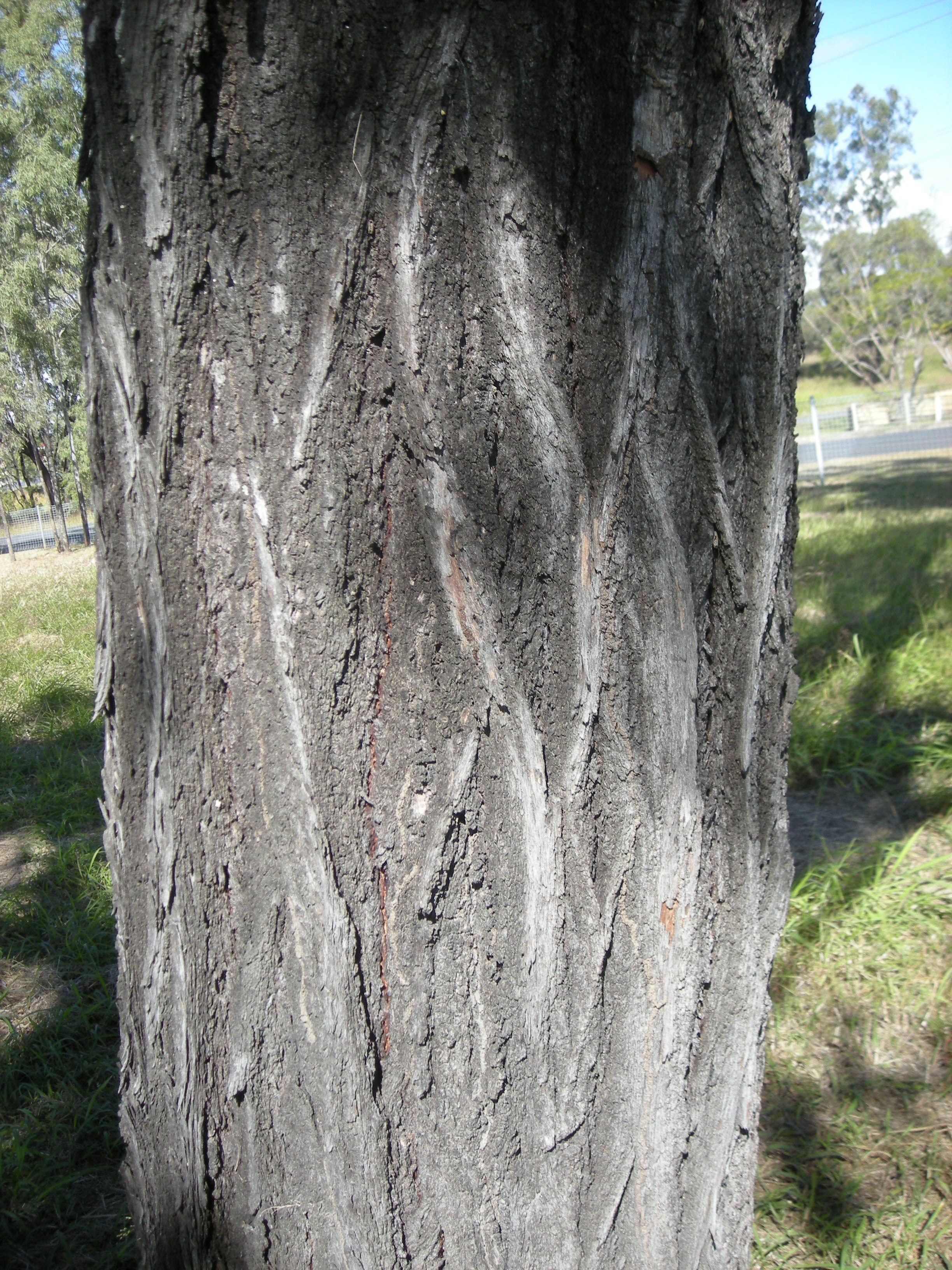 Eucalyptus crebra tree bark, coastal central Quueensland, Australia.